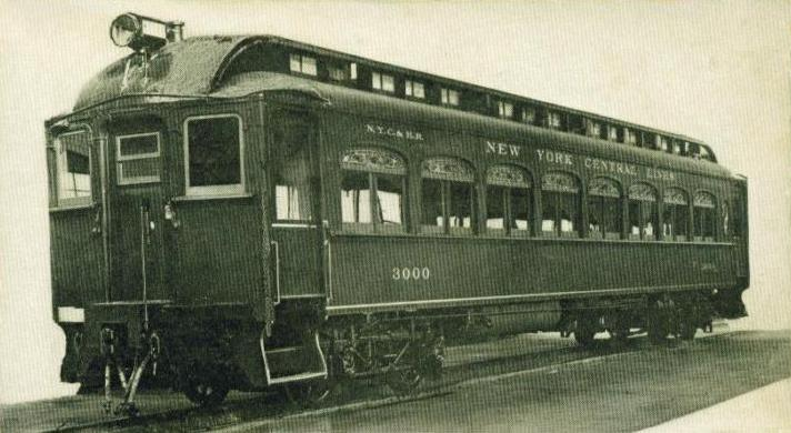 "The first steel passenger car in the world, to be used by steam or electricity, built at Berwick, Pennsylvania" -- (postcard inscription). It was manufactured in 1904 by the American Car & Foundry Company, the first in an order of 300 cars for the Interborough Rapid Transit Company of New York City.